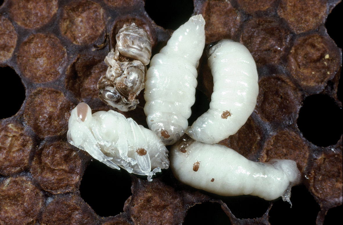 About one third of all food is produced as a result of insect pollination, and the European honeybee, Apis mellifera, is responsible for about 80% of this. In Australia, farmers rely on large populations of feral European honeybees (managed bees gone wild). The Asian honeybee Apis cerana poses a significant threat to these populations as it is a host to two types of predatory mites with the capacity to wipe out huge numbers of the European honeybee – the varroa mite (Varroa destructor) and the Asian bee mite (Tropilaelaps clareae). Dr Anderson of CSIRO Entomology is currently using molecular and physical methods to investigate the ecology, epidemiology, invasiveness, co-evolution and control of exotic parasitic bee mites and their Asian honeybee hosts.